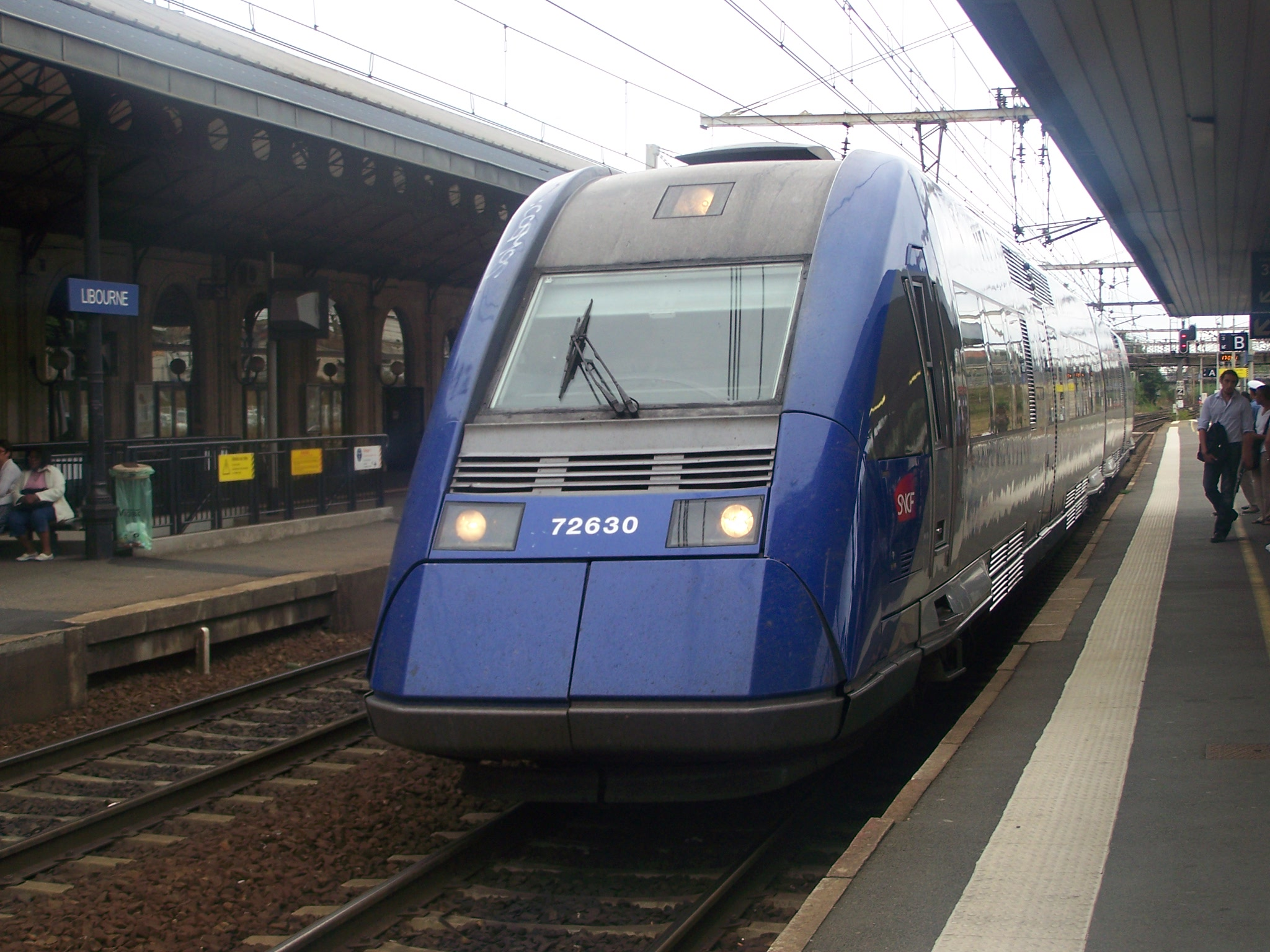 French regional train to Bordeaux is entering the station of Libourne in the department of Gironde.